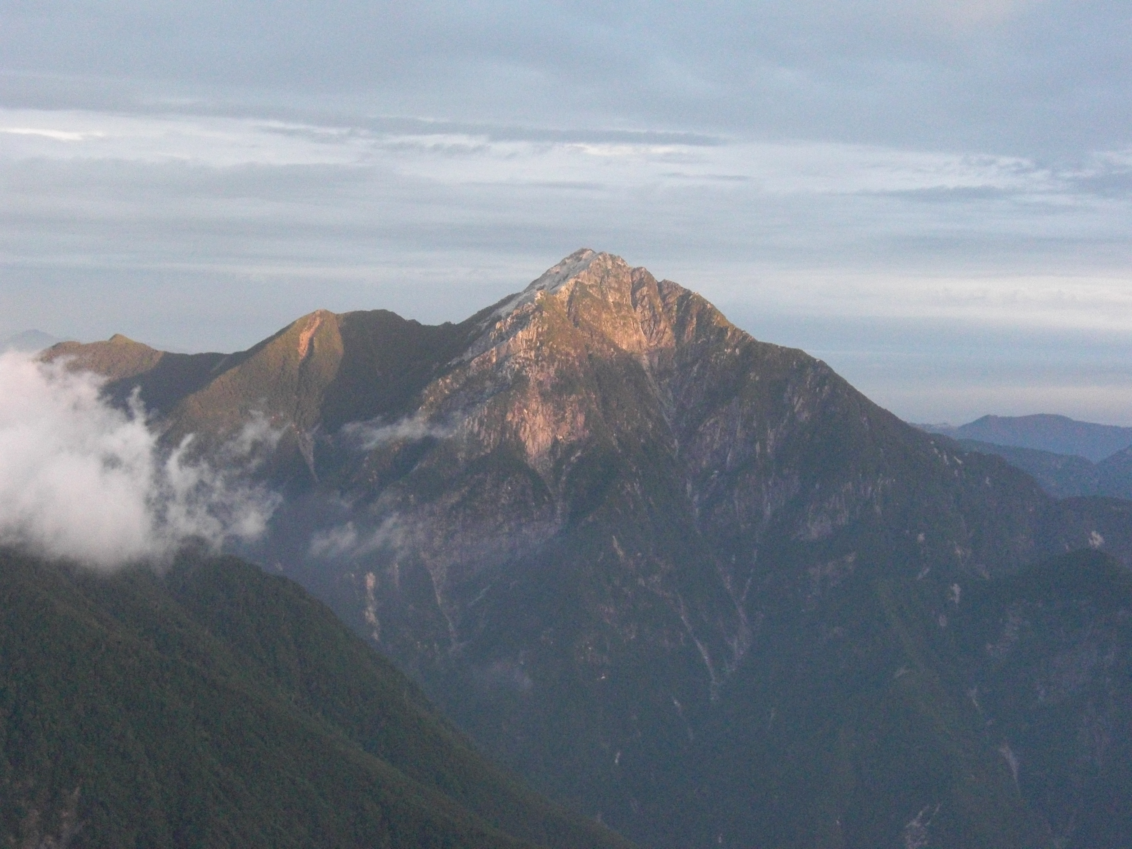 Mount Kaikomagatake from Mount Jizōgatake (Mount Hō-ōsan)